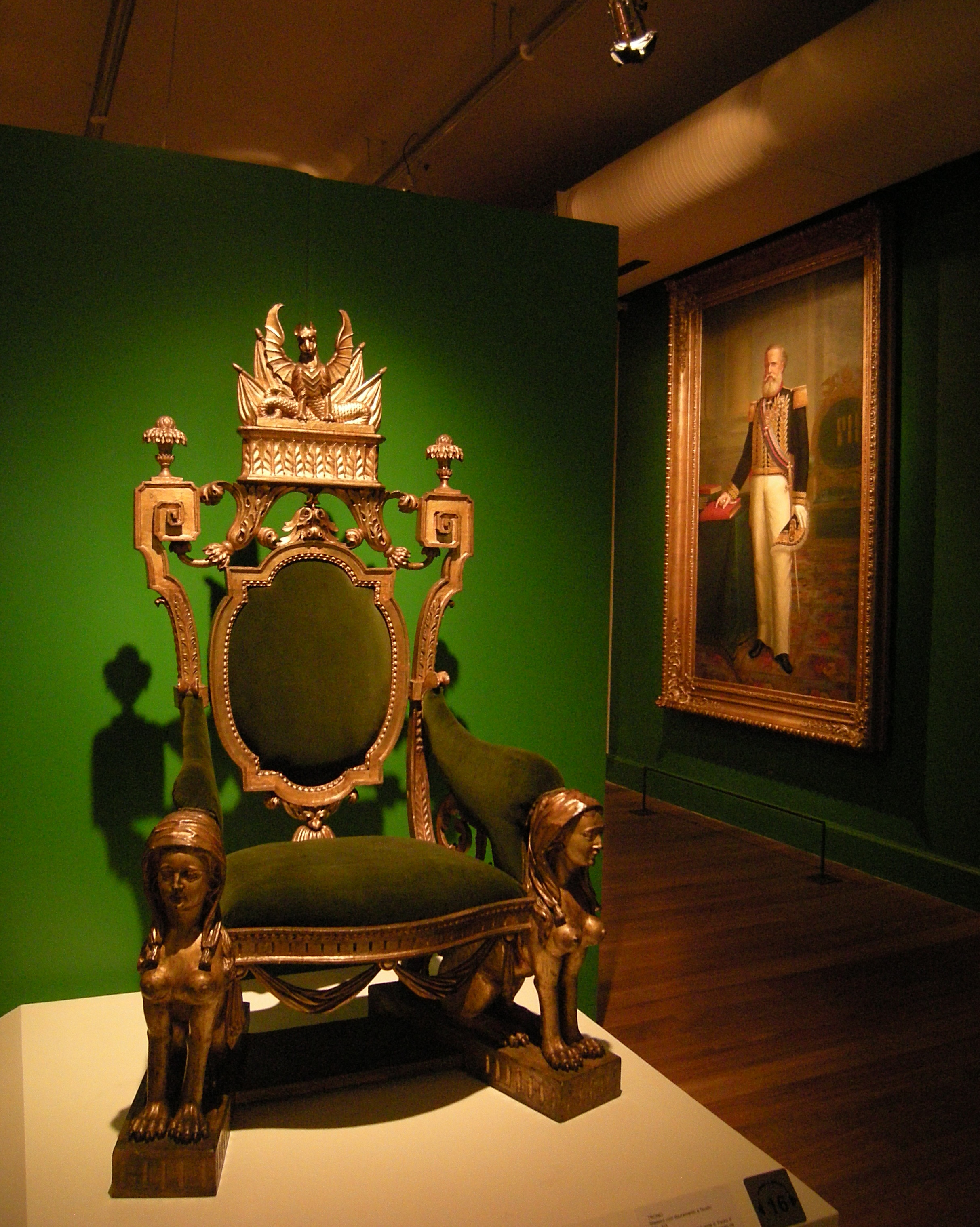 Imperial senate's throne, Sec XIX. Brazil's Museum of National History - Rio de Janeiro.